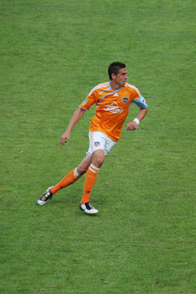 Houston v Chivas USA